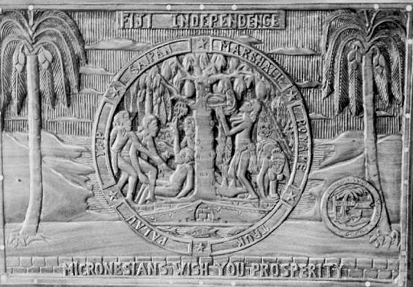 Palauan Storyboard Carving presented by TTPI delegation to Fiji (Independence Celebration)